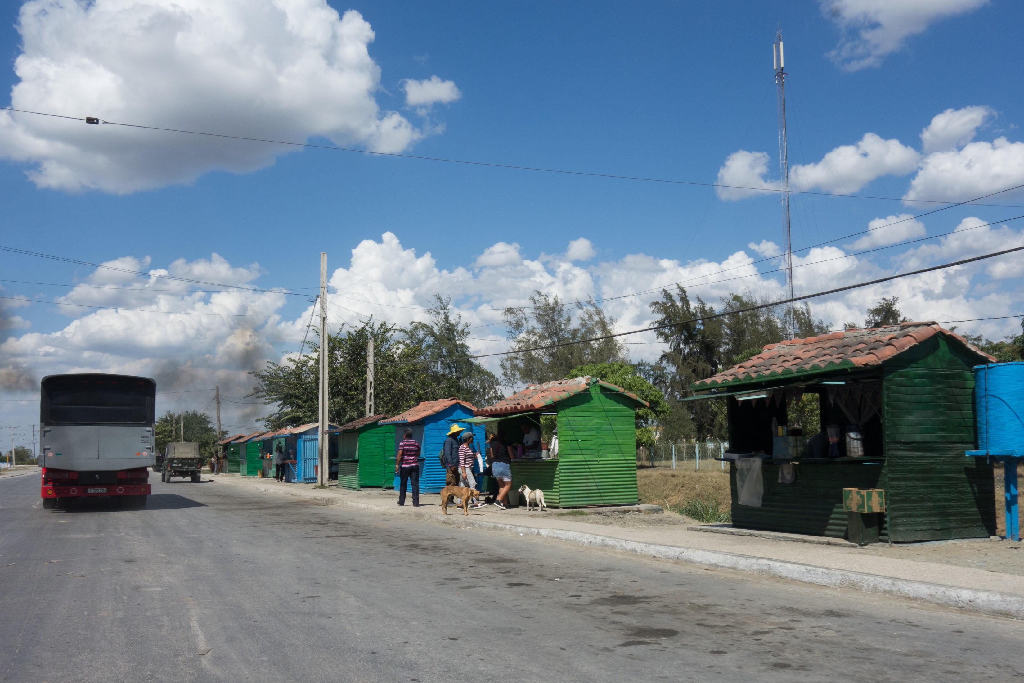 Vado del Yeso, village in the Río Cauto, Cuba Аҧсшәа: El pueblo Vado del Yeso en el municipio Río Cauto, Cuba